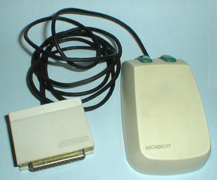 First Microsoft Personal Computer Mouse